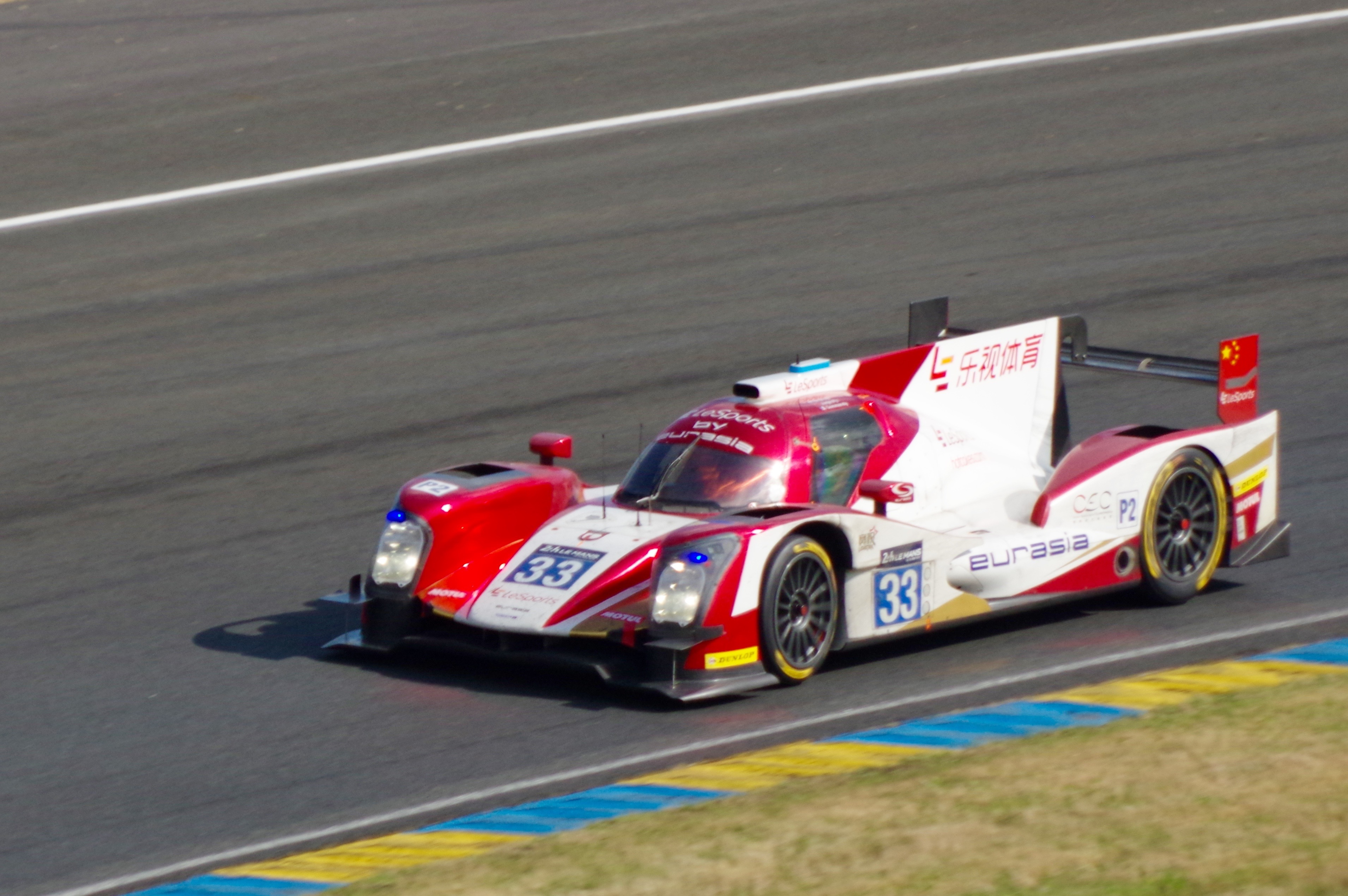 Oreca 05's Eurasia Motorsport Driven by Pu Jun Jin, Tristan Gommendy and Nick de Bruijn